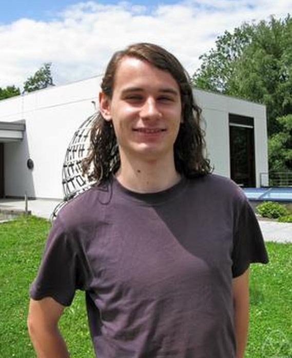 Peter Scholze, Oberwolfach 2011